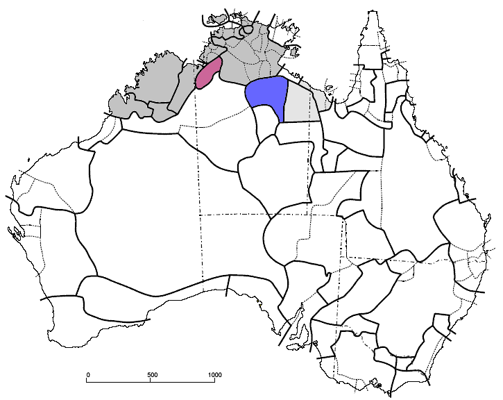 Mindi languages (blue, purple) & other non-PN langs (grey) Yirram Barkly other non-Pama–Nyungan families